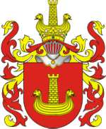 Herb Korab Polish coat of arms File:POL COA Korab.svg is a vector version of this file. It should be used in place of this raster image when not inferior. File:Herb Korab.PNG File:POL COA Korab.svg For more information, see Help:SVG. In other languages